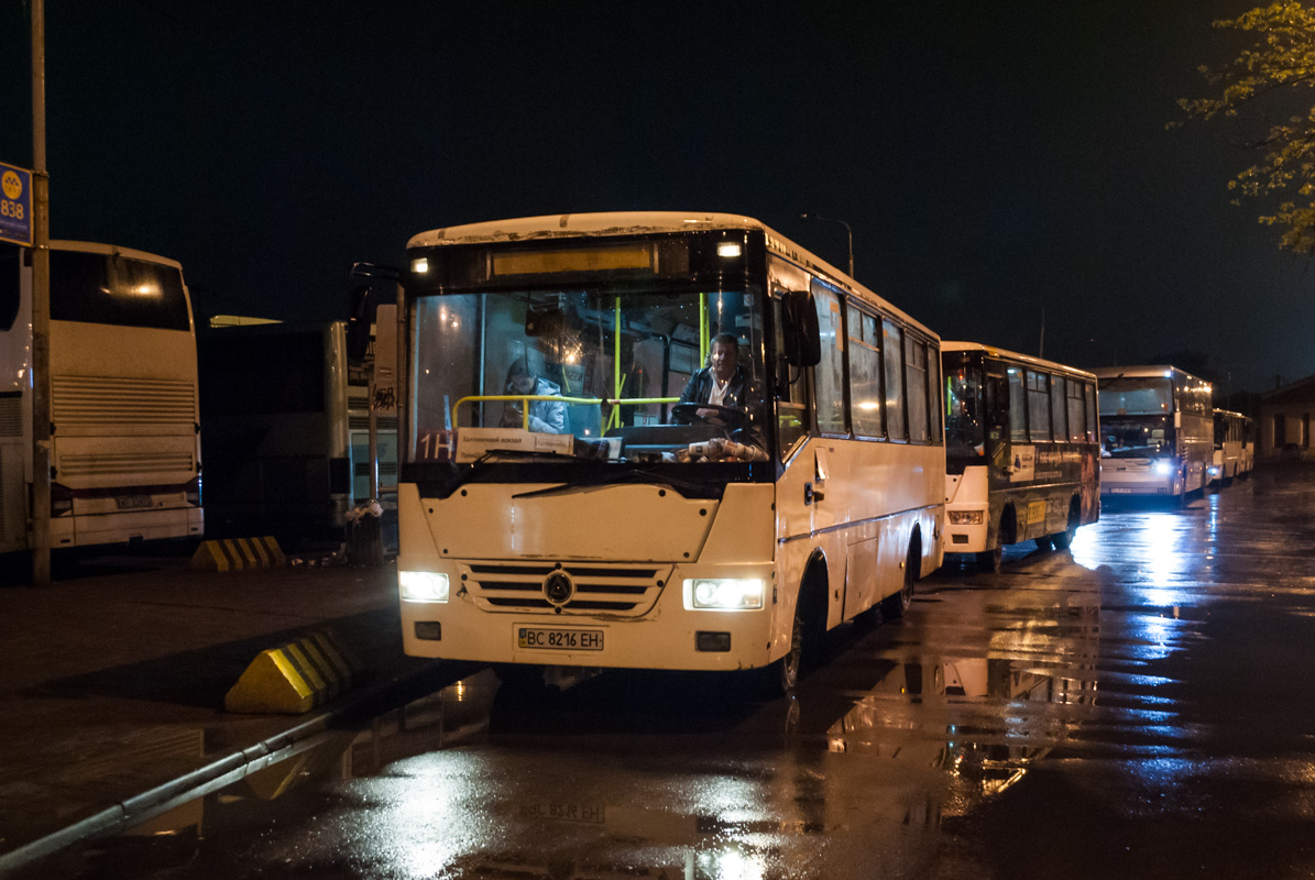 Etalon A081 bus serving Lviv bus night route